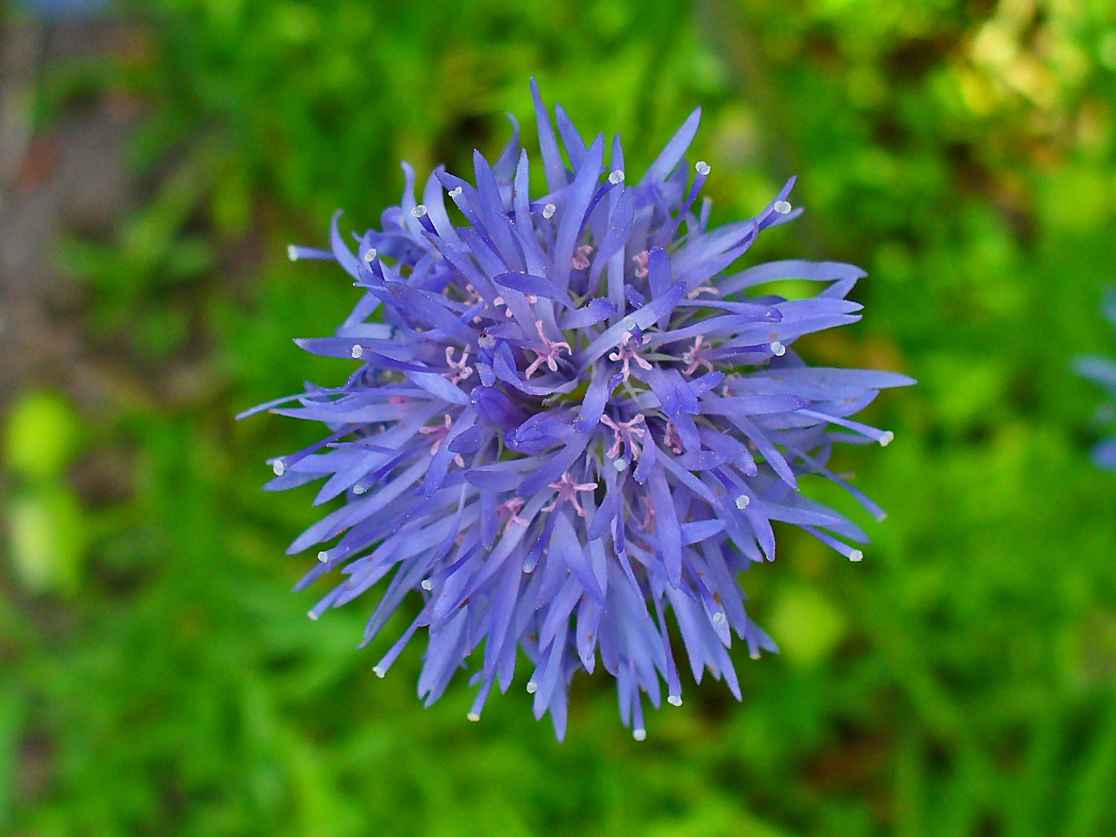 Jasione laevis, Campanulaceae, Sheep's Bit, inflorescence; Botanical Garden KIT, Karlsruhe, Germany.